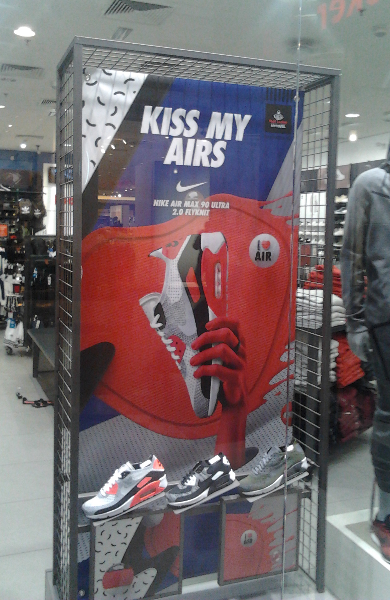 Advertisement of Nike Air Max 90 Ultra 2.0 Flyknit in Arkadia shopping mall, Warsaw, Poland.